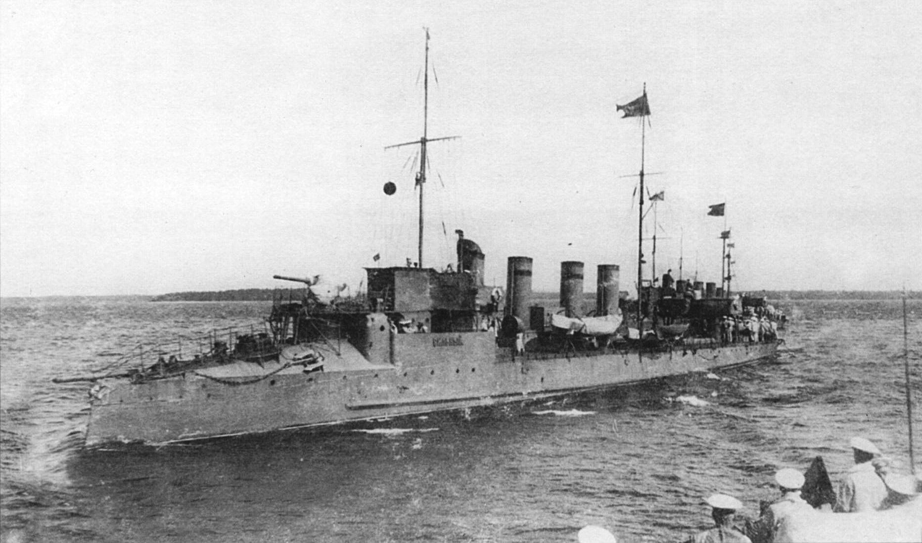 The Imperial Russian torpedo boat destroyer Sil'nyy at cruise.